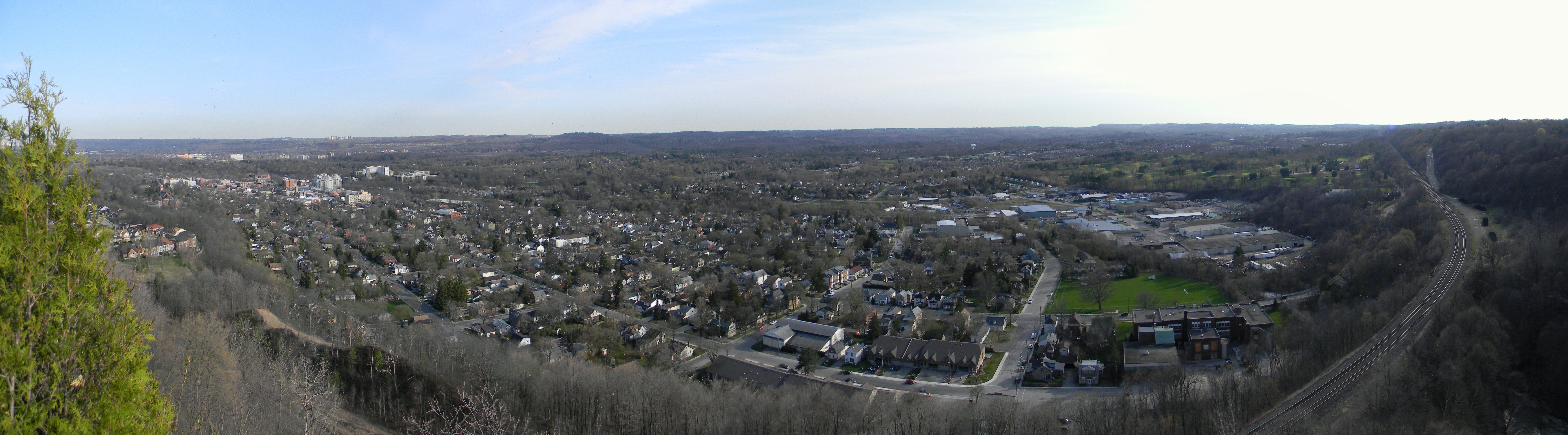 Panoramic picture of Dundas, Hamilton, Ontario, Canada